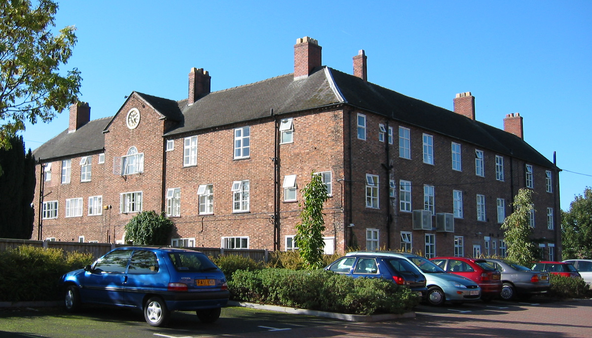 Nantwich Workhouse, Nantwich, Cheshire